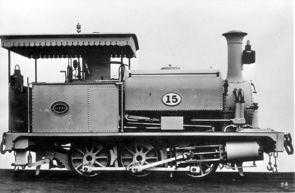 Natal Harbour Board no. 15 (0-6-0ST)